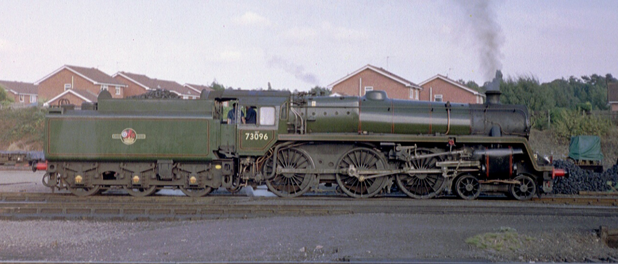 BR Standard Steam Locomotive 73096 at Kidderminster SVR Station during the 2003 Autumn Steam Gala